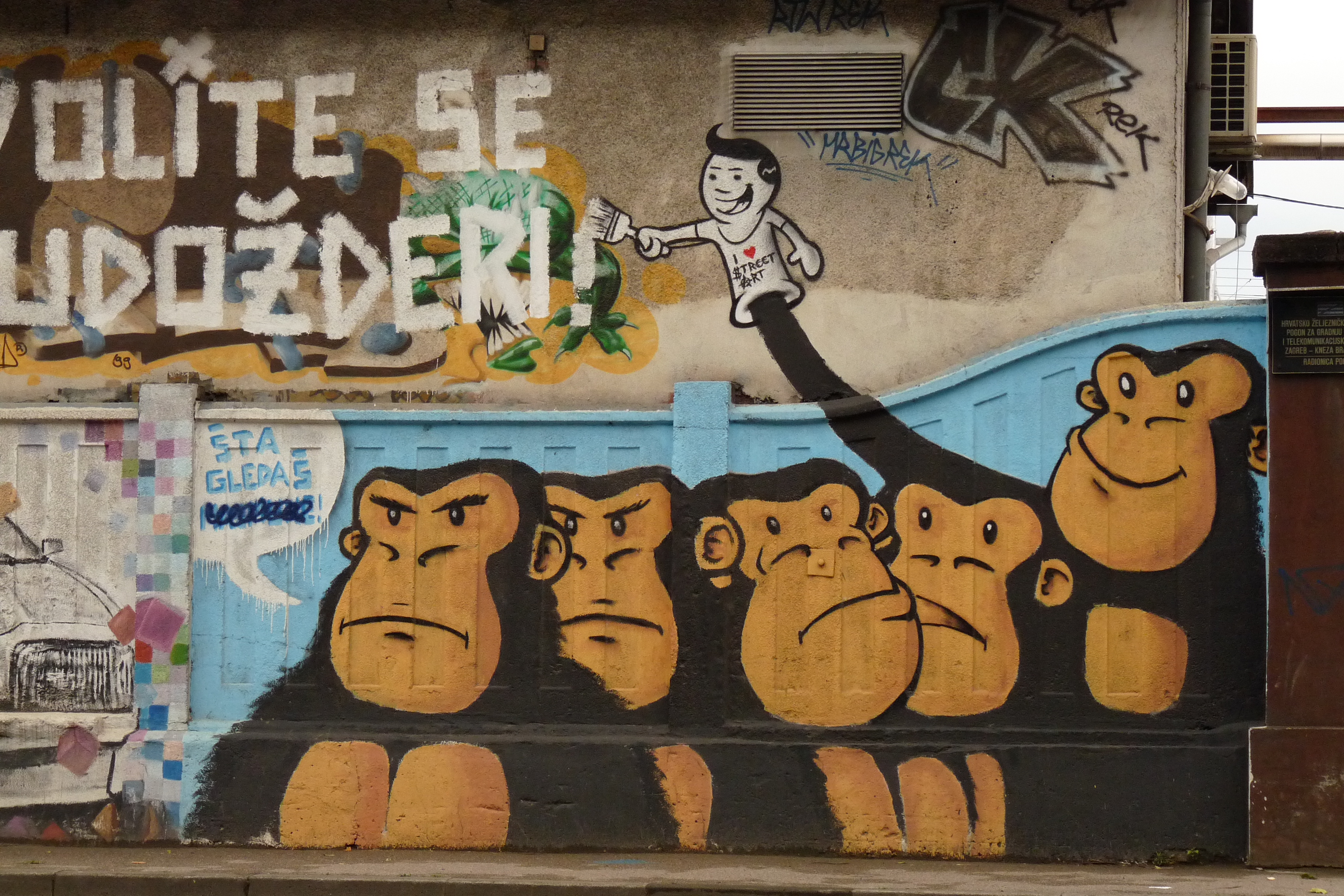 Graffito in Branimir Street, Zagreb.